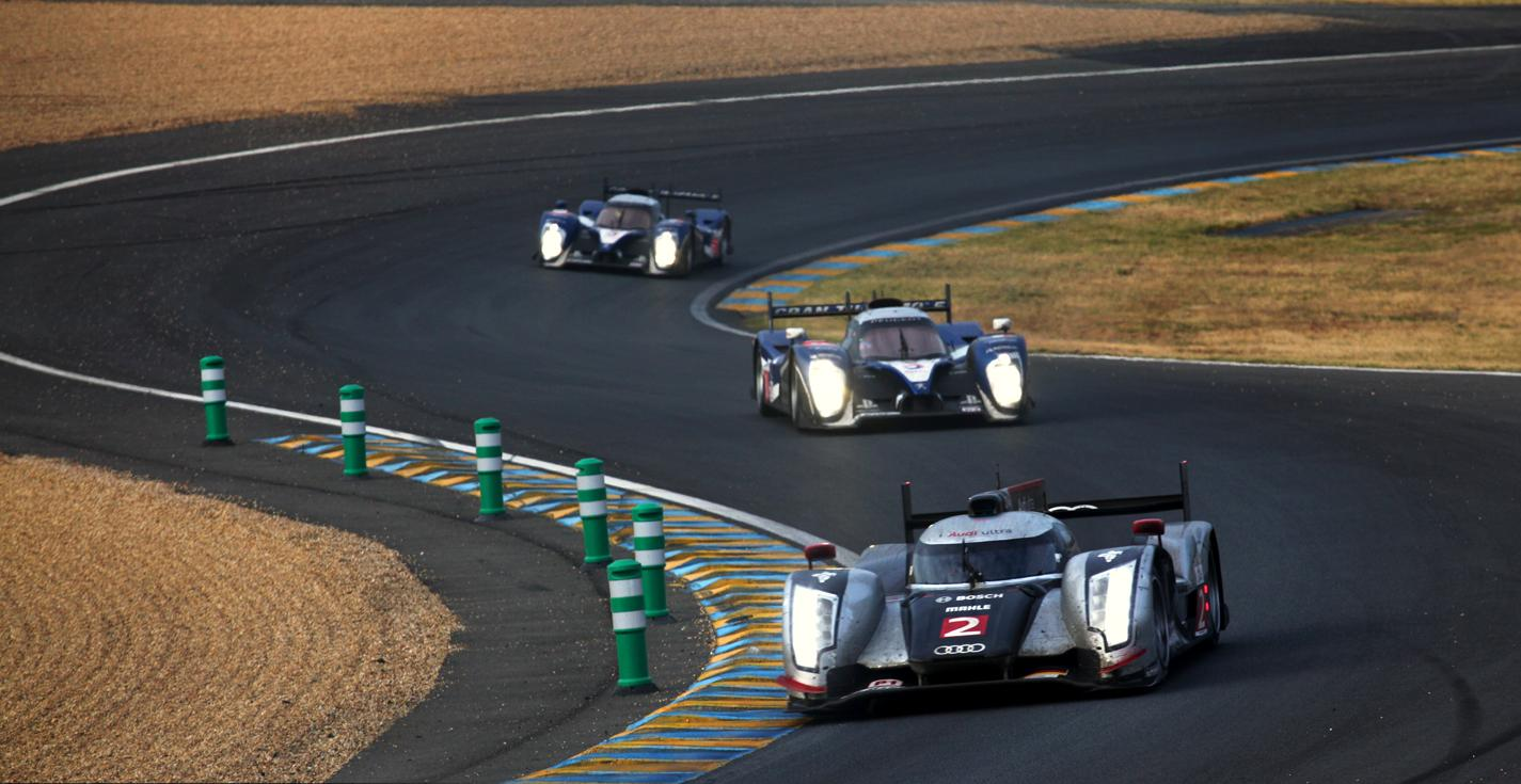 Le Mans 2011 - Race - Audi R18 TDI #2 and Peugeot 908 #8 and #7 in the Esses.